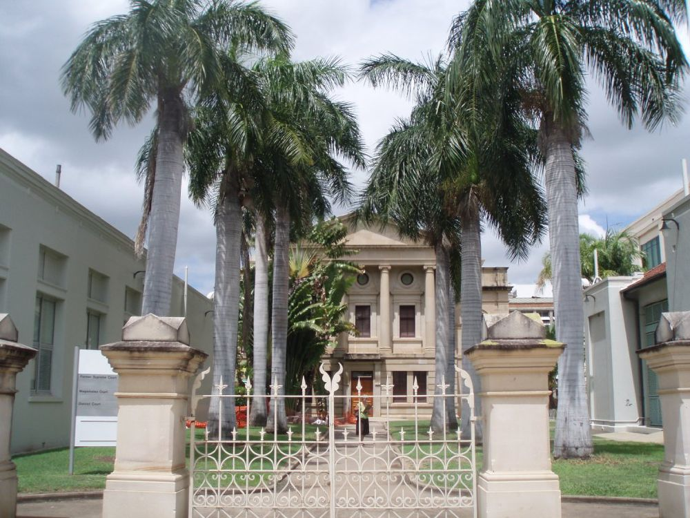 Rockhampton Court and Administrative Complex, from NE (2009)